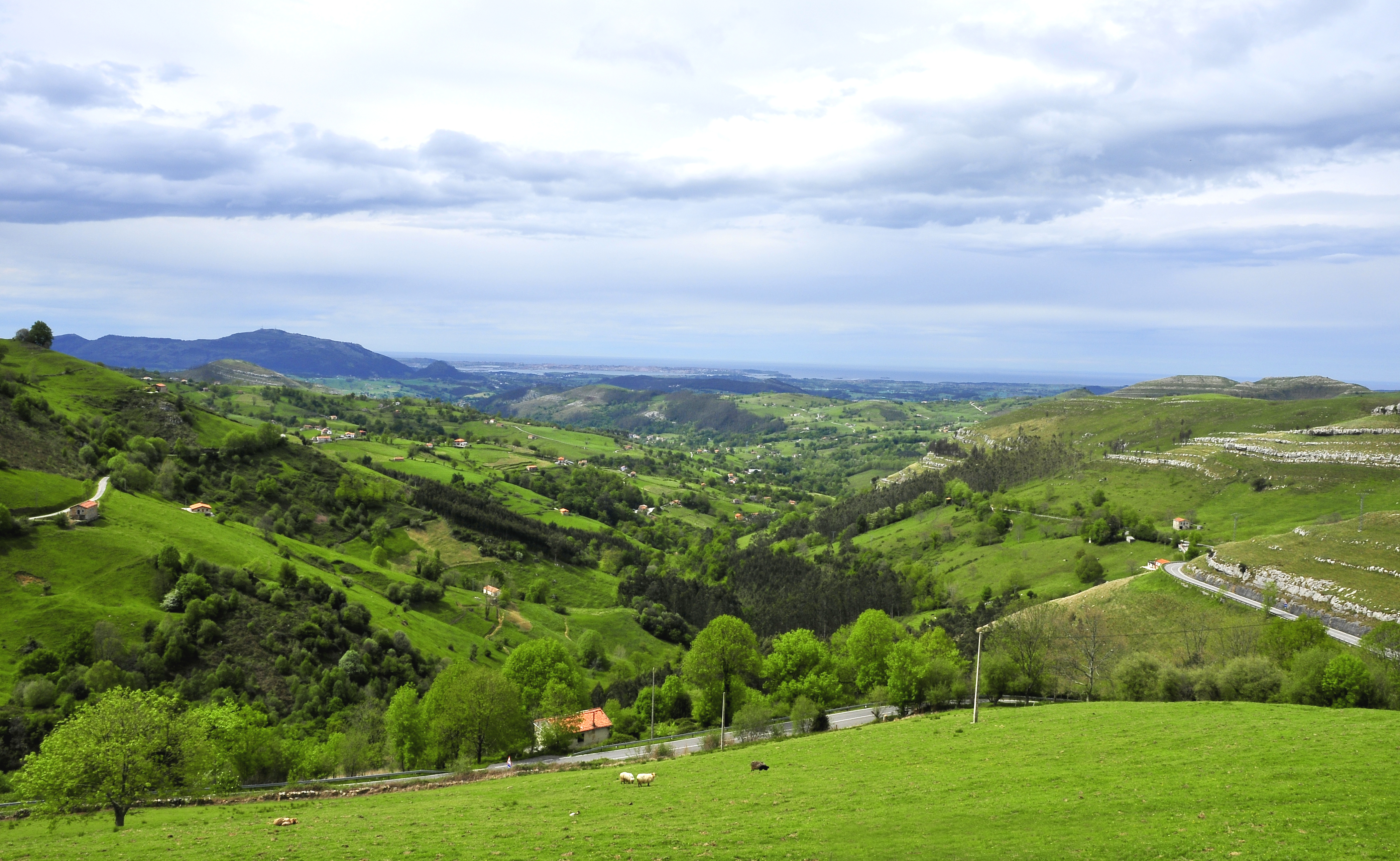 Riotuerto Valley from Alisas Pass. Riotuerto, Cantabria, Spain